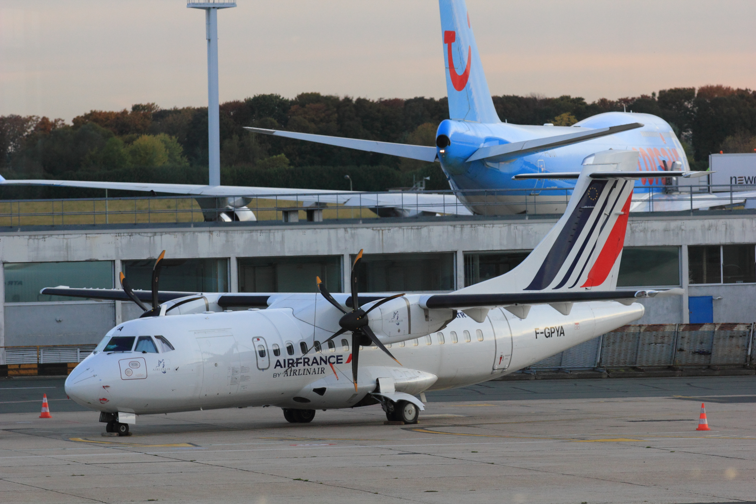 In foreground, Airlinair's ATR 42-500 F-GPYA with Air France livery. In background CorsairFly's Boeing 747-400 F-GTUI.